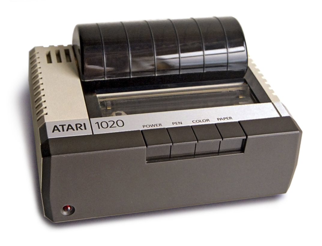 Photograph of the Atari 1020 Printer/Plotter